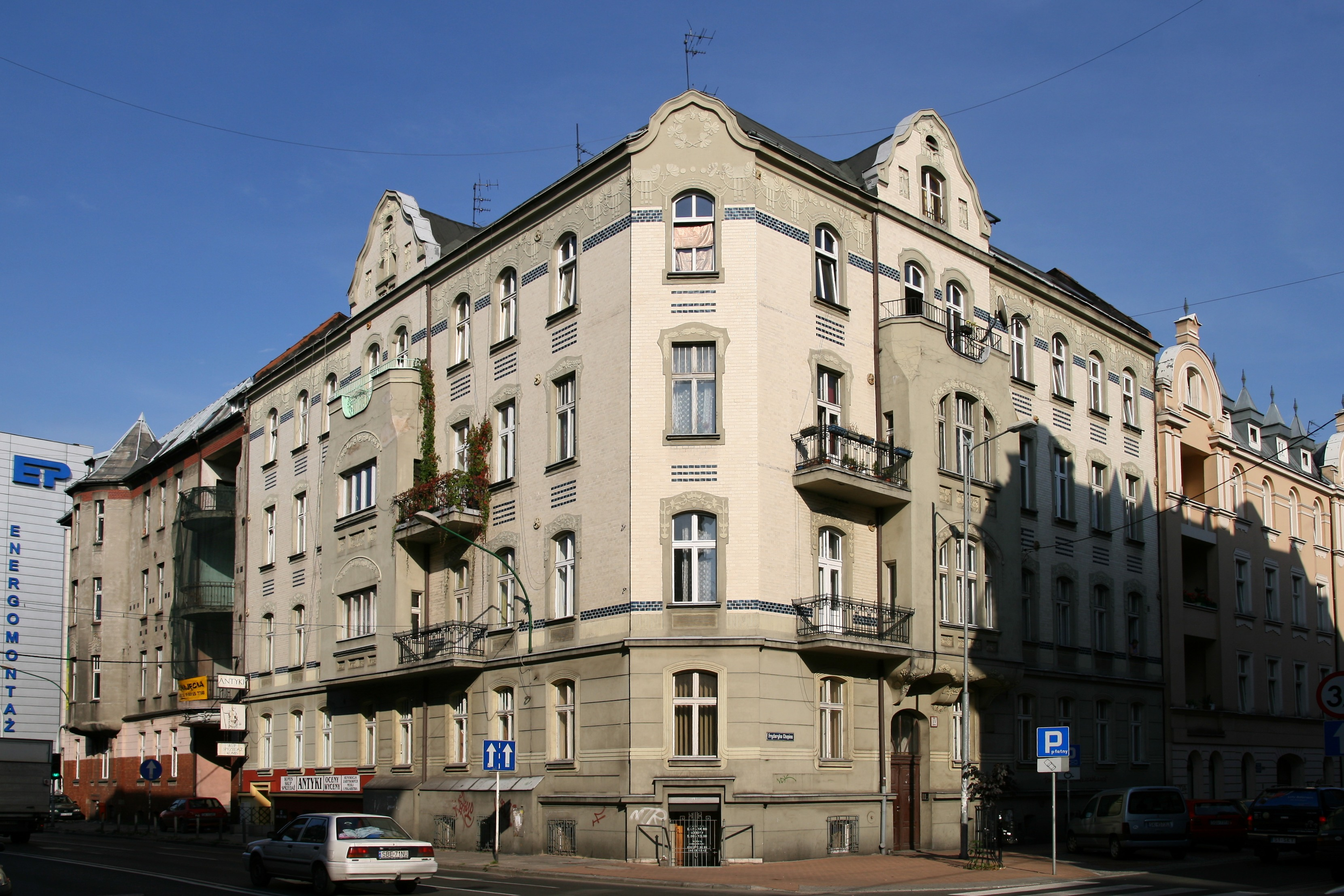 Chopina Street 11 in Katowice.